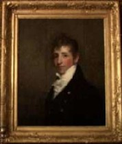 Portrait of Nathan Appleton, ca.1812, by Gilbert Stuart.